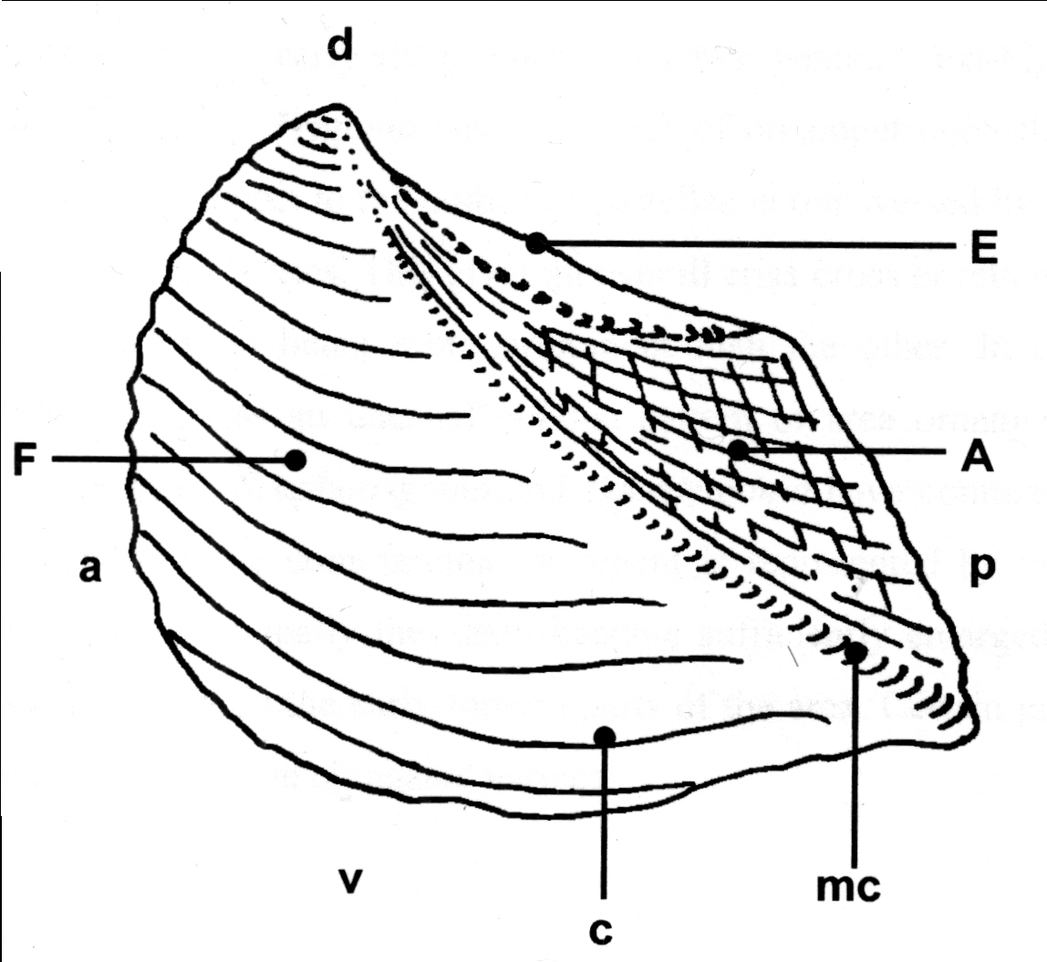 Diagram of Trigonia costata. Author: Aofrancis